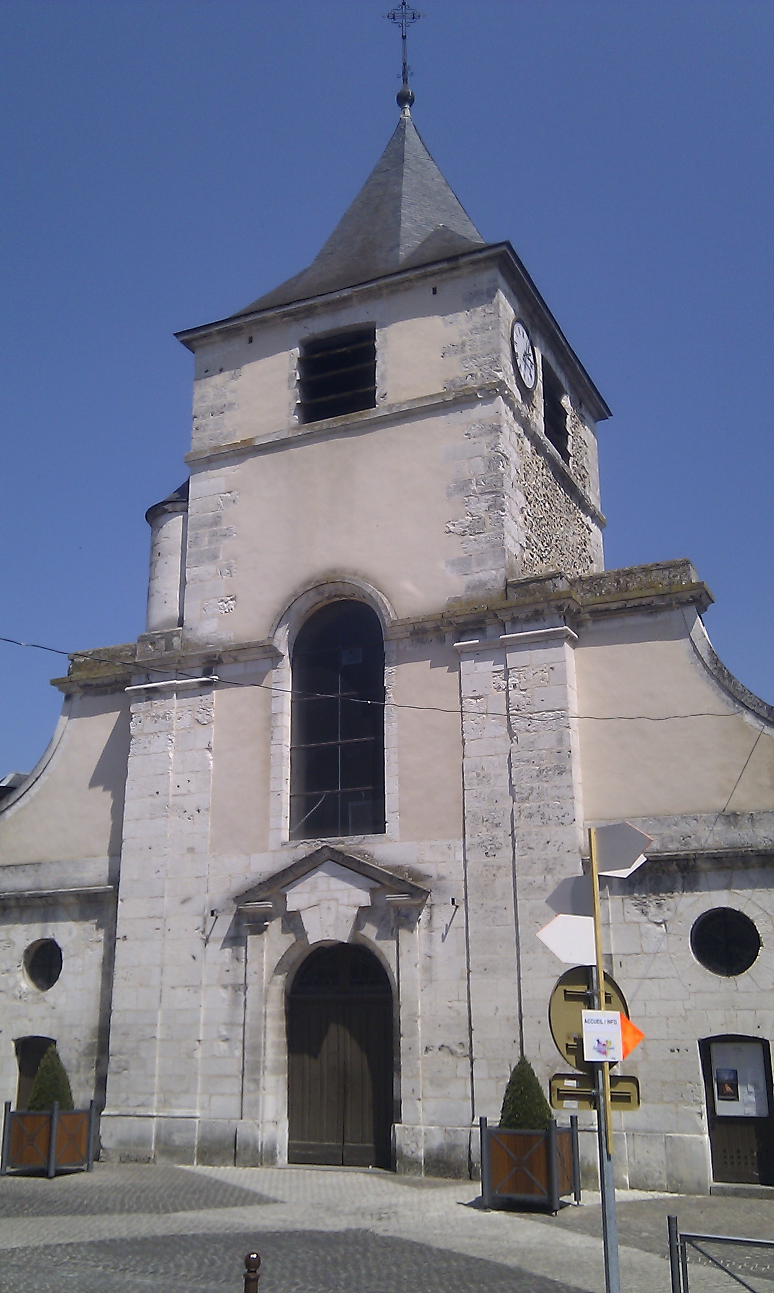 Church of Gaillon.